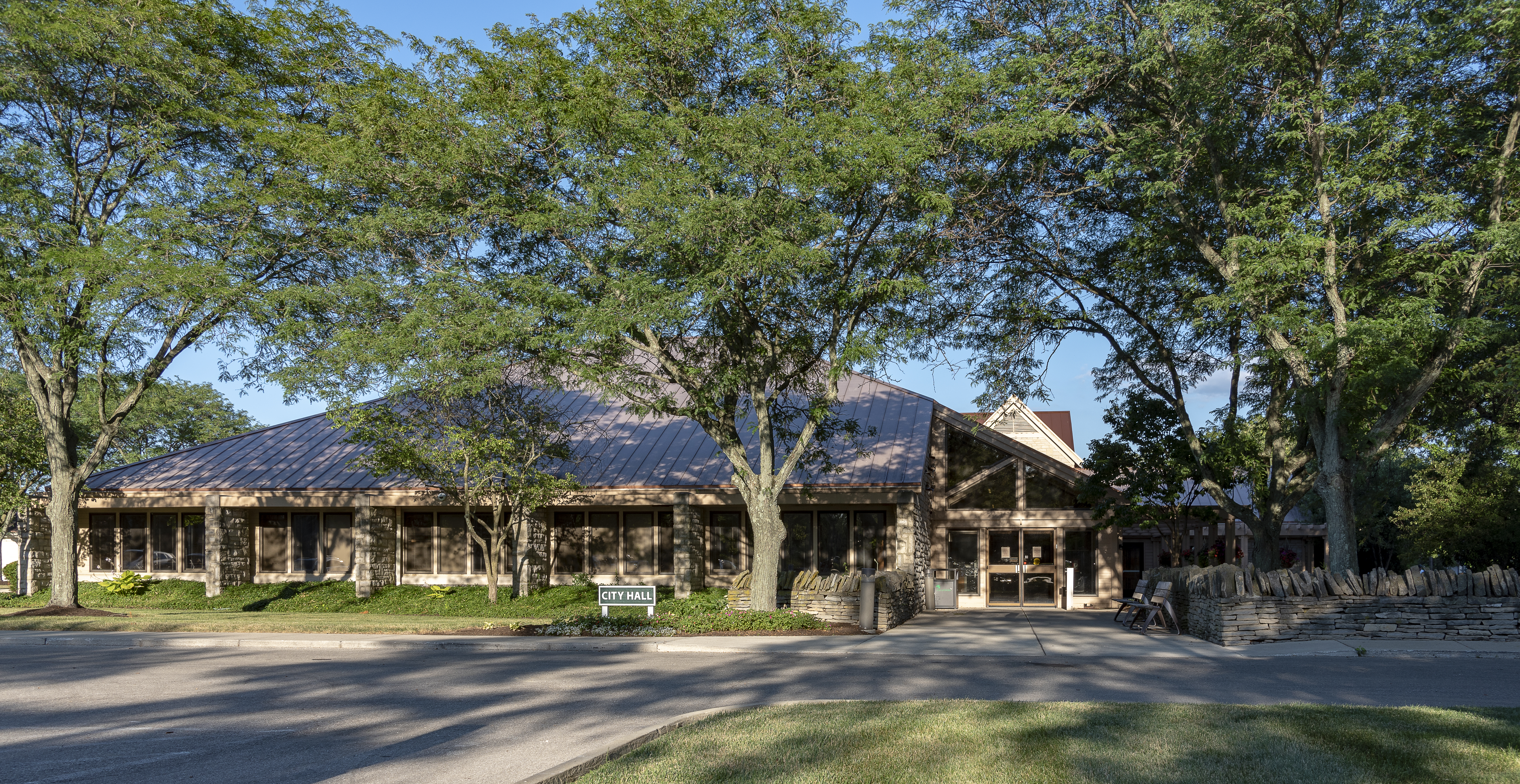 City Hall of Dublin, Ohio. Photo was taken from the in the middle of July in the parking lot located at 5200 Emerald Pkwy.